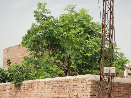 Greenry in Ibrahim Town